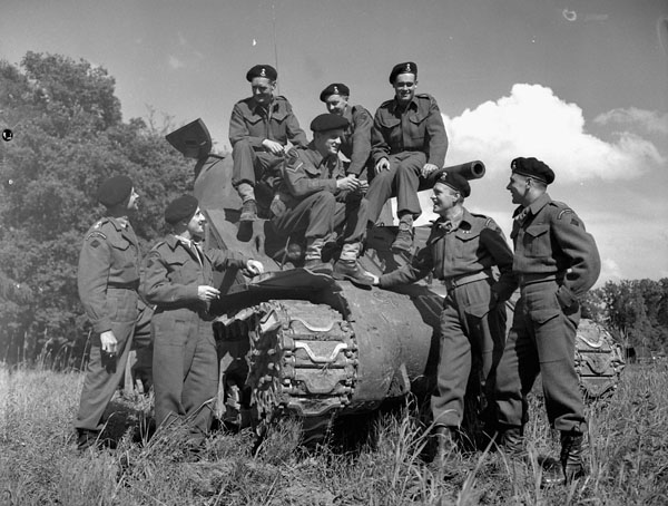 Title / Titre : Personnel with the Sherman tank "Bomb" of the Sherbrooke Fusiliers Regiment, which landed in France on D-Day and continued in action through to VE-Day. Zutphen, Netherlands, 8 June 1945 Creator(s) / Créateur(s) : Capt. Ken Bell Date(s) : June 8, 1945 / 8 juin 1945 Reference No. / Numéro de référence : MIKAN 3514141 Location / Lieu : Zutphen, Netherlands / Zutphen, Pays-Bas Credit / Mention de source : apt. Ken Bell. Canada. Department of National Defence. Library and Archives Canada, PA-188671 / Capt. Ken Bell. Canada. Ministère de la défense nationale. Bibliothèque et Archives Canada, PA-188671